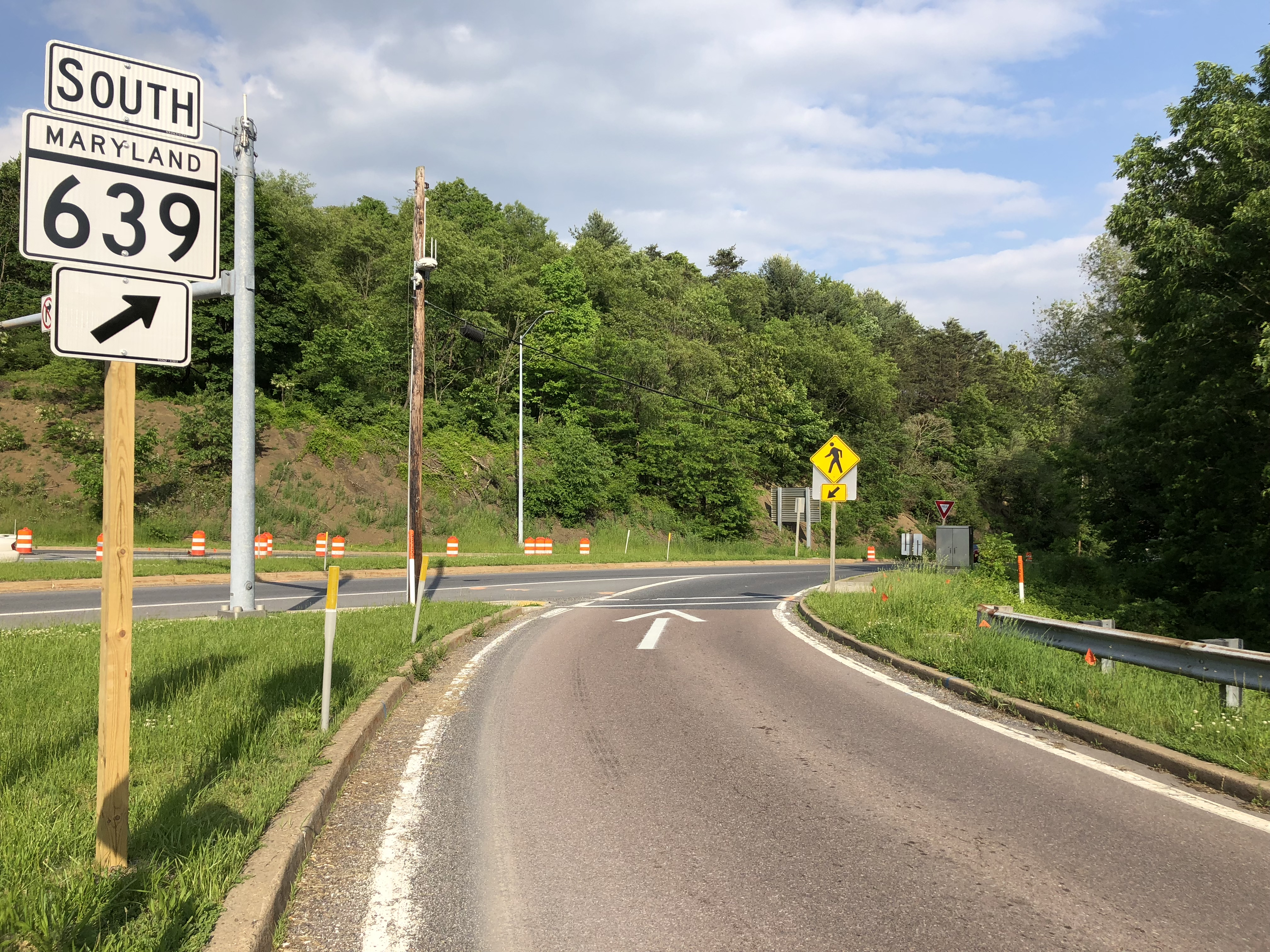 View south along Maryland State Route 639 (Willowbrook Road) at Interstate 68 and U.S. Route 40 (National Freeway) in Cumberland, Allegany County, Maryland